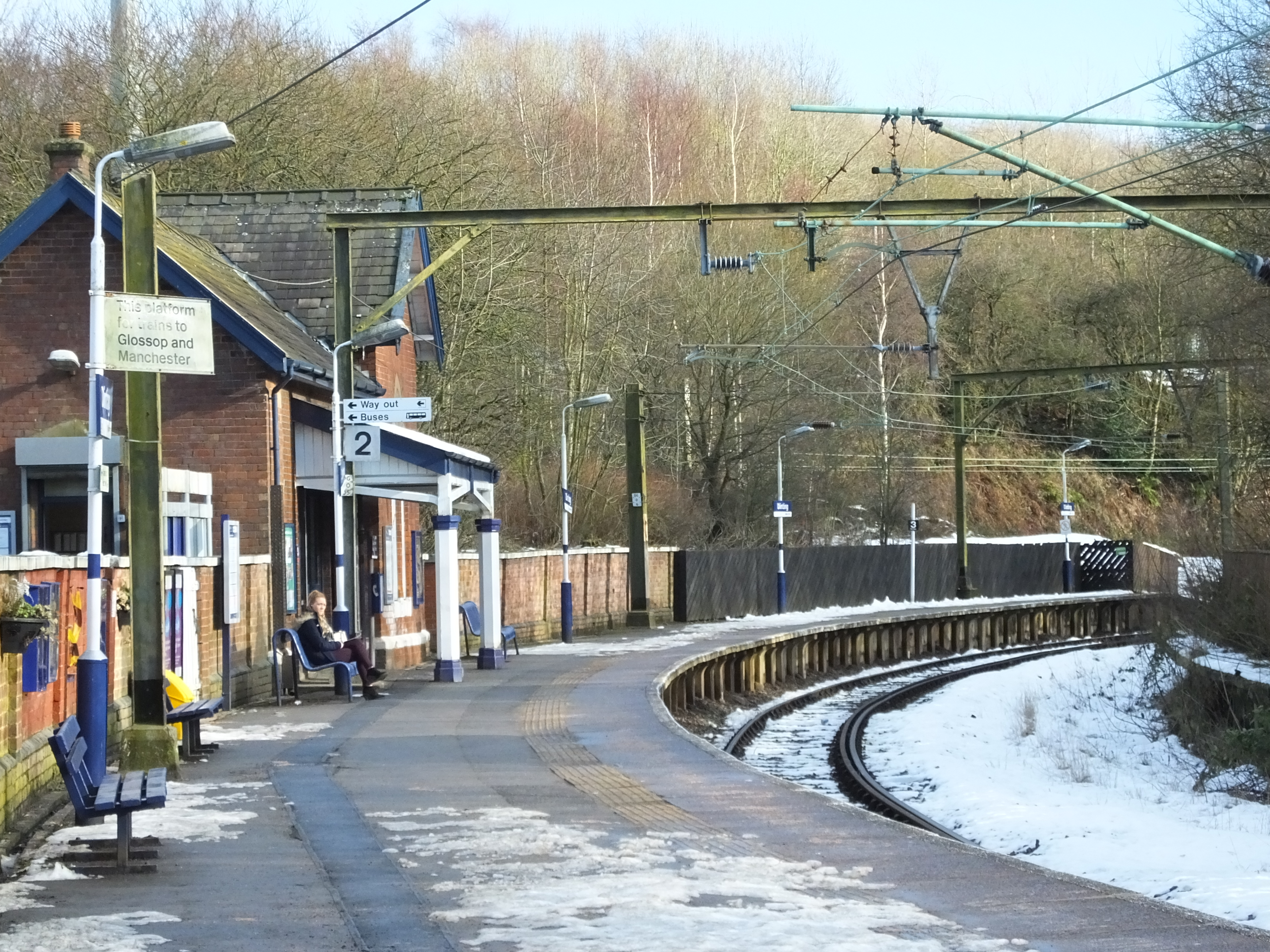 Dinting railway station on a snowy February day. The station is on the Manchester-Glossop Line 12¼ miles (20 km) east of Manchester Piccadilly.